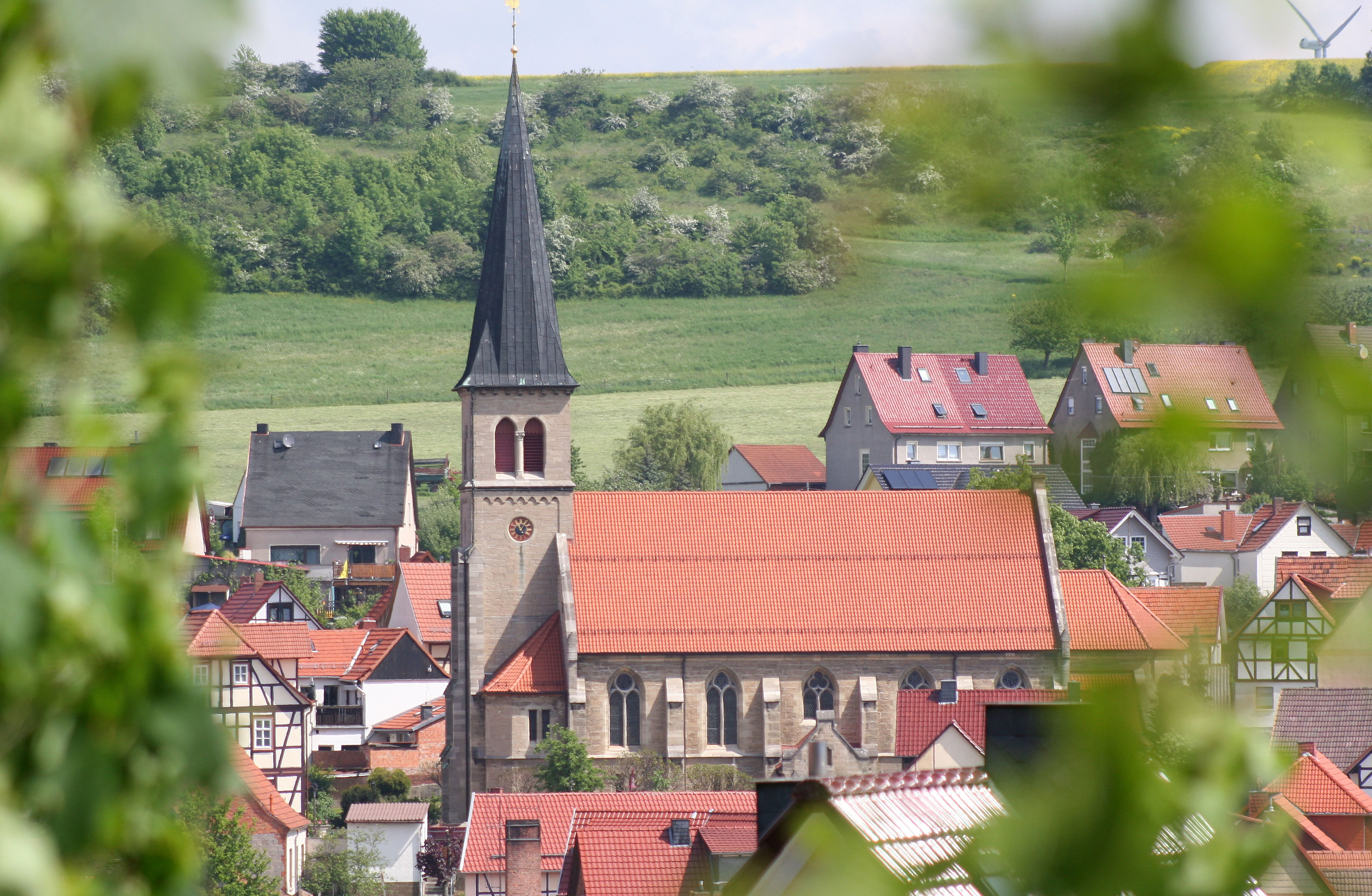 diedorf eichsfeld Kirche